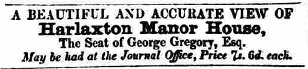 Advertisement for the viewing of Harlaxton Manor in 1856